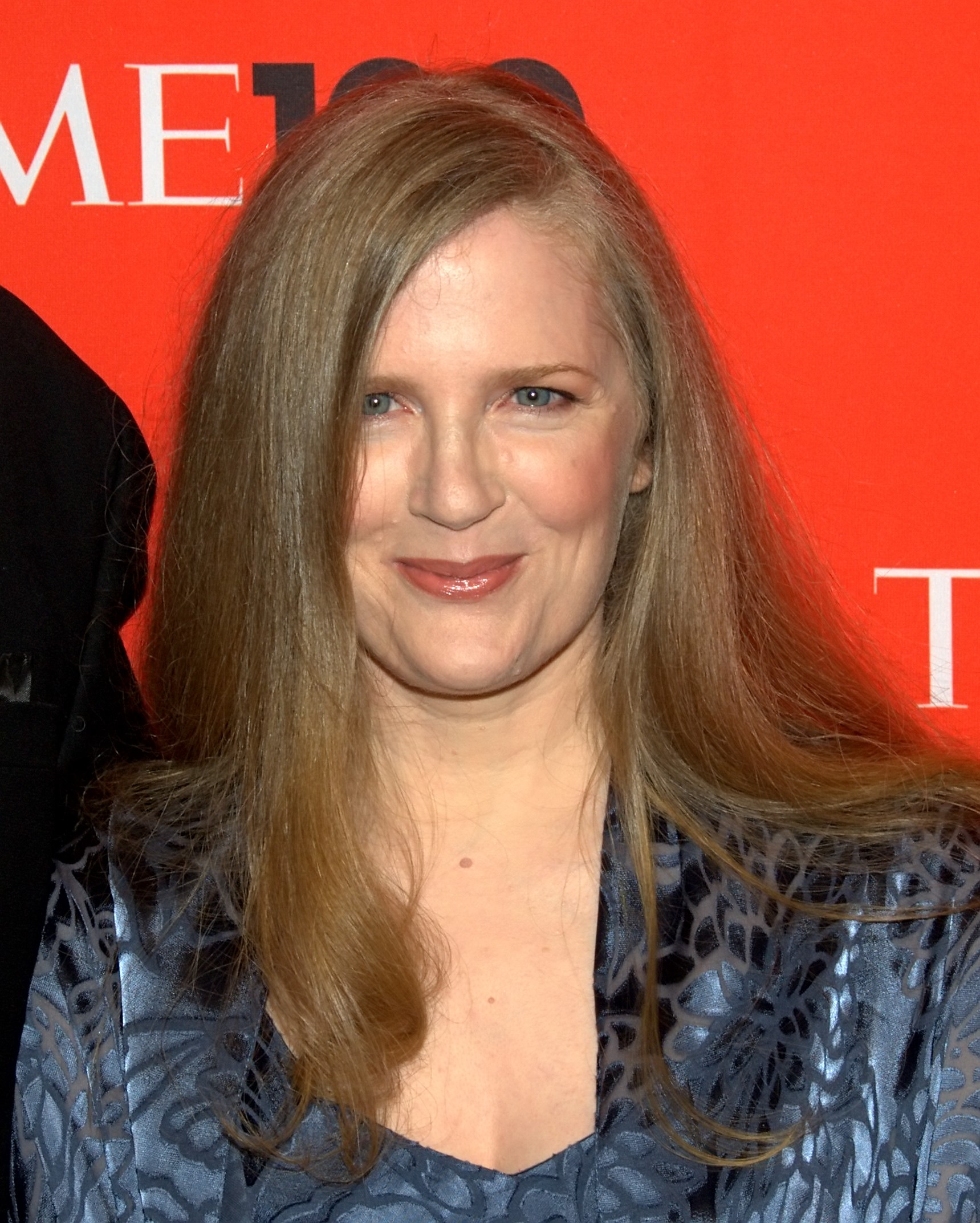 This photo is from the Time 100 Gala - click here to read my posts about some of these amazing people